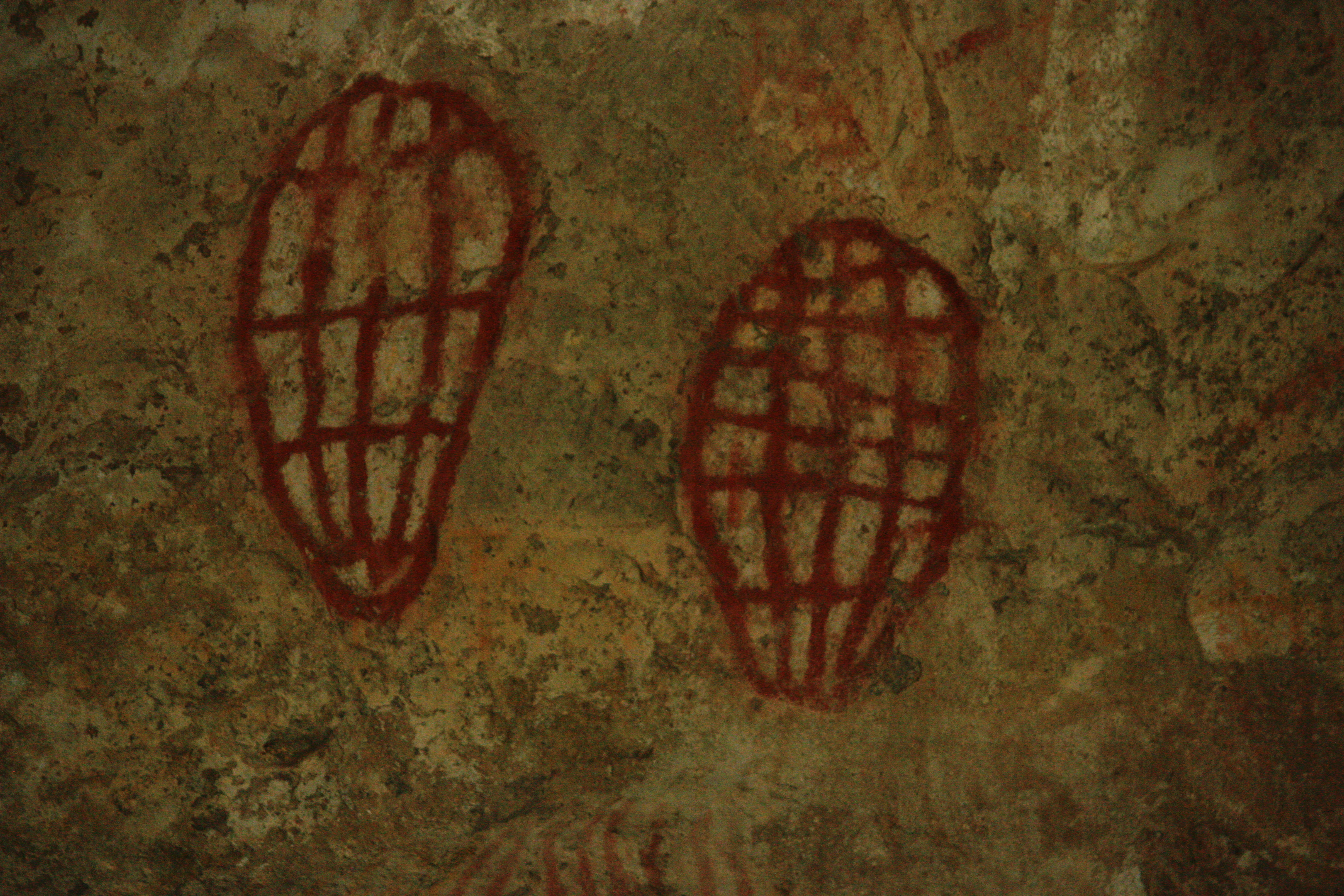 Public park with boardwalk into mouth of a cave in Nara Inlet on Hook Islans in the Whitsunday National Forest, Queensland, Australia. The painting is by the Ngaro aboriginal people and is thousands of years old. The painting's symbolism or figurative subject is unknown but resembles a Pandanas fruit that the Ngaro people are known to have used for food. It also resembles the inside of a sea turtle shell, which was also a common staple of the Ngaro people.